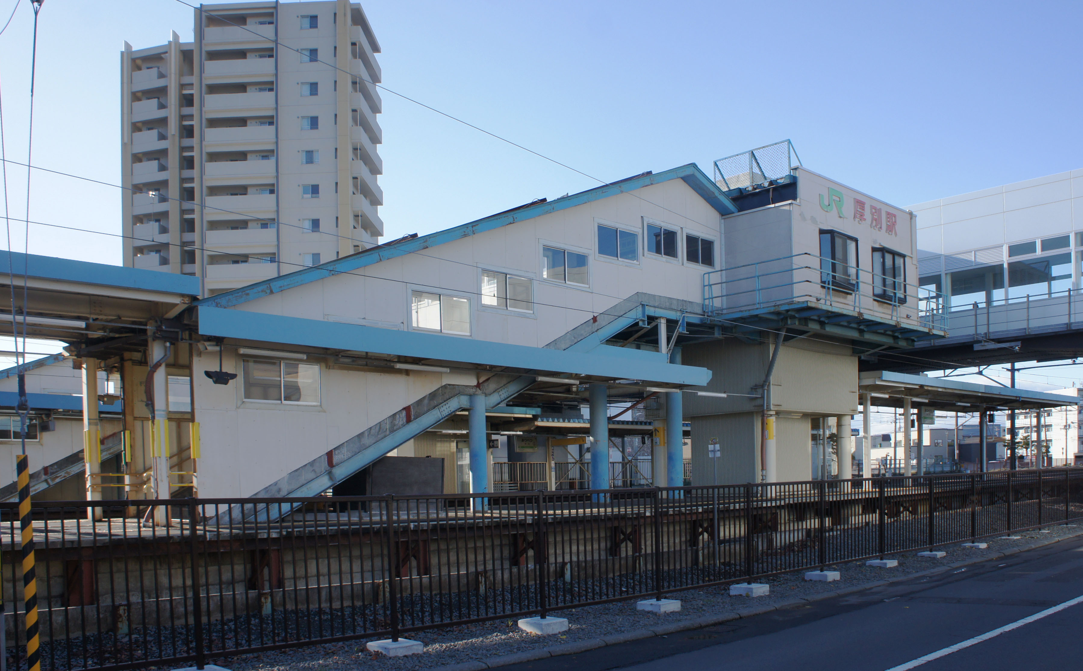 Station building (West Exit) of JR Hakodate-Main-Line Atsubetsu Station Sony NEX-3